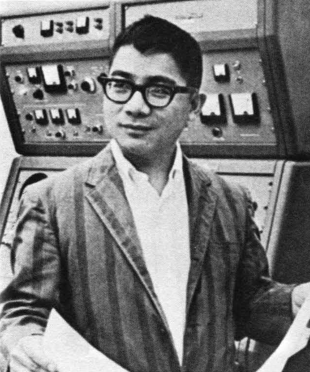 California Institute of Technology Professor Sunney Chan